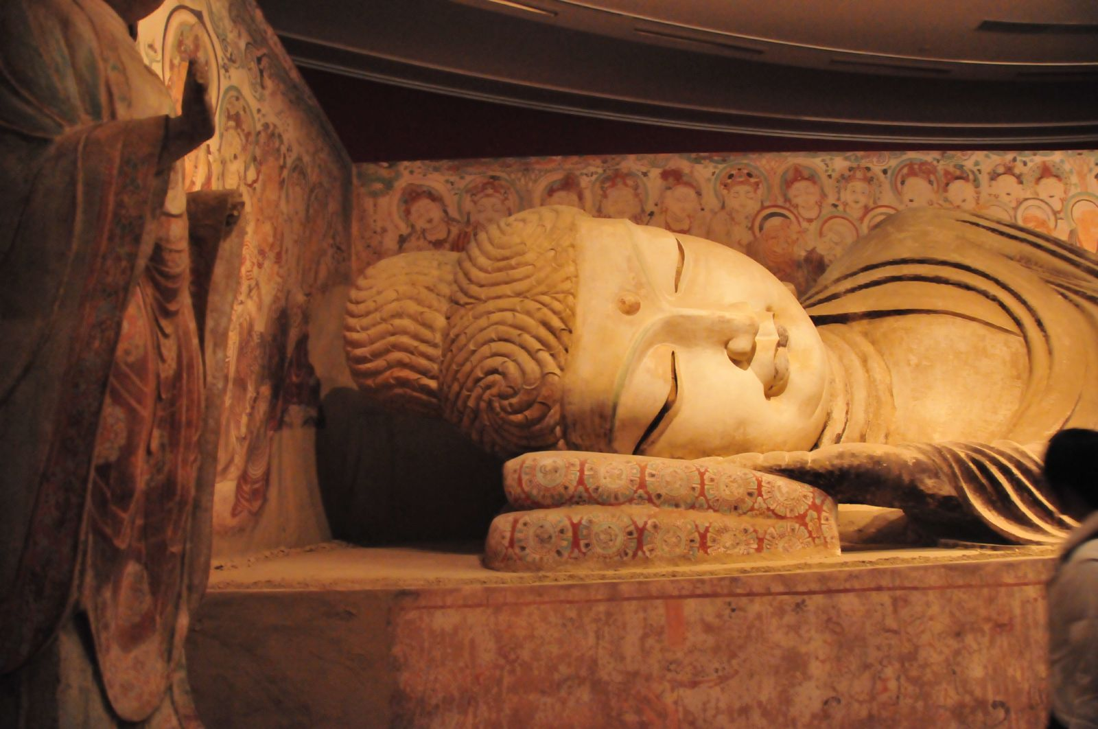 Display of reproduction of artworks from the Mogao Caves in Dunhuang in the National Art Museum of China, Beijing. The original is in Cave 158 of Mogao Caves, dating from the Tibetan period.